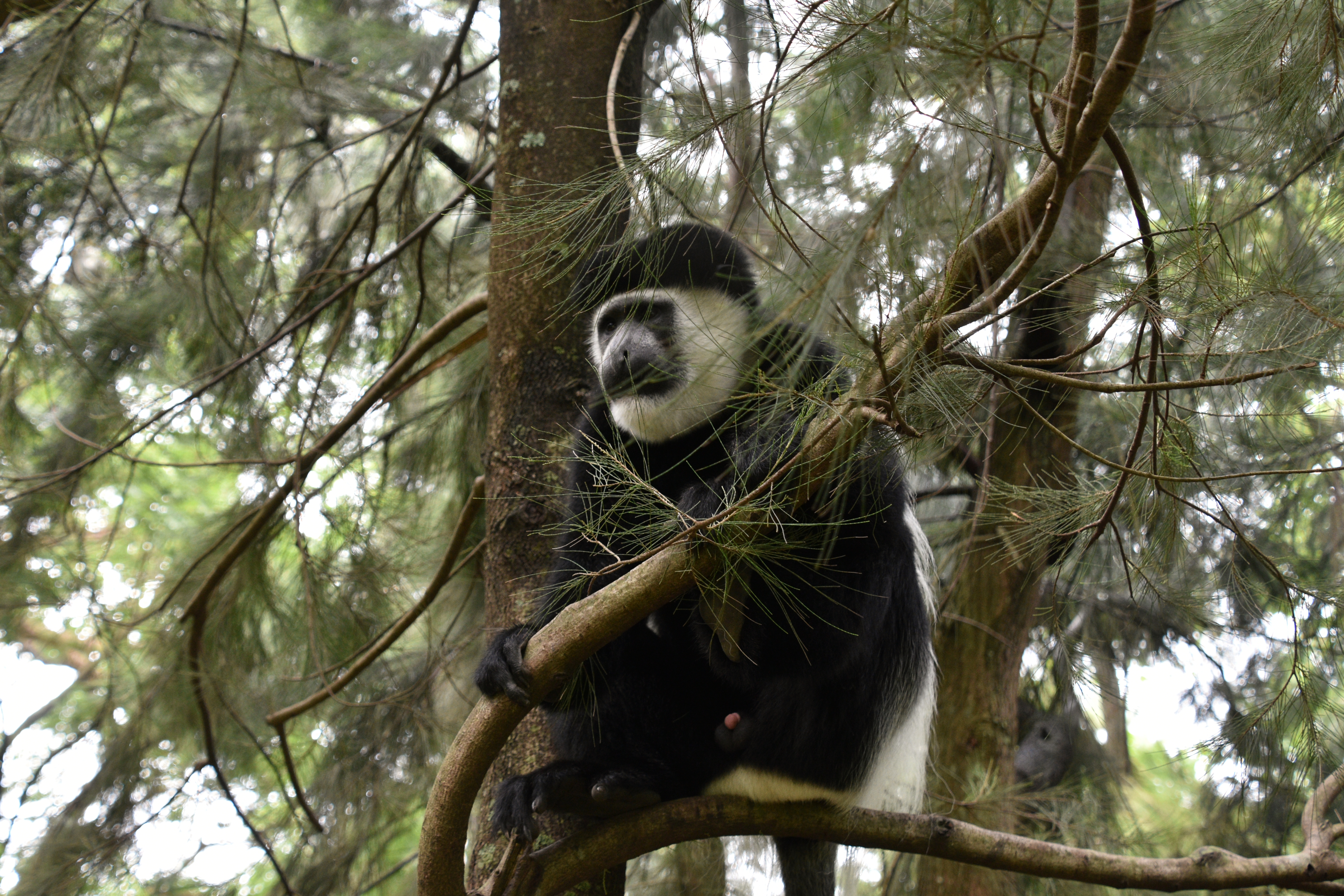 Colobus monkey at Amora Gedel Park, Hawassa (11)